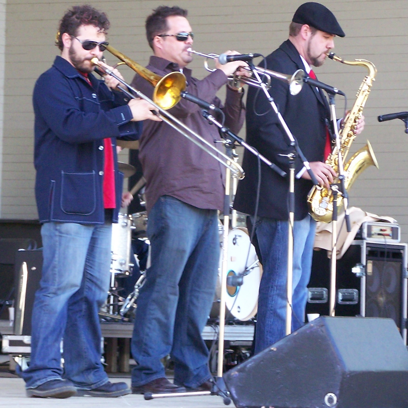 The Mocking Shadows perform at the Enmax Main Stage at Prince’s Island Park in Calgary on Canada Day 2007.